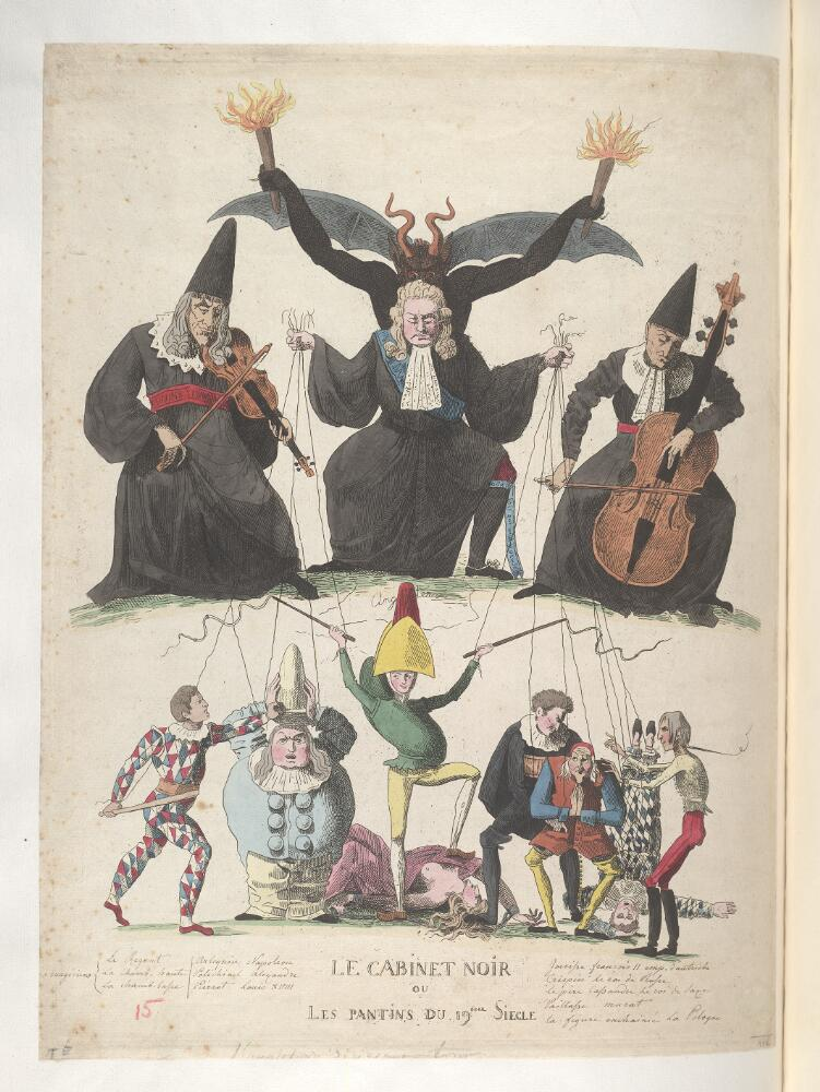 French political cartoon; MS annotations in ink identifying the figures